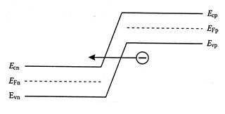 Zener